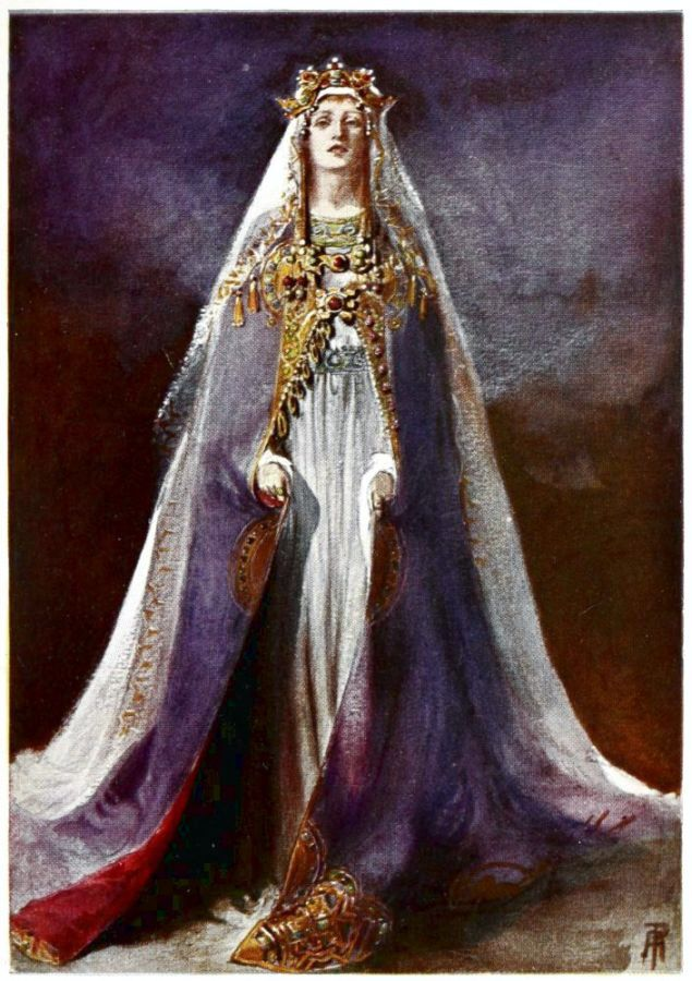 Isolde - illustration by Percy Anderson for Costume Fanciful, Historical and Theatrical, 1906